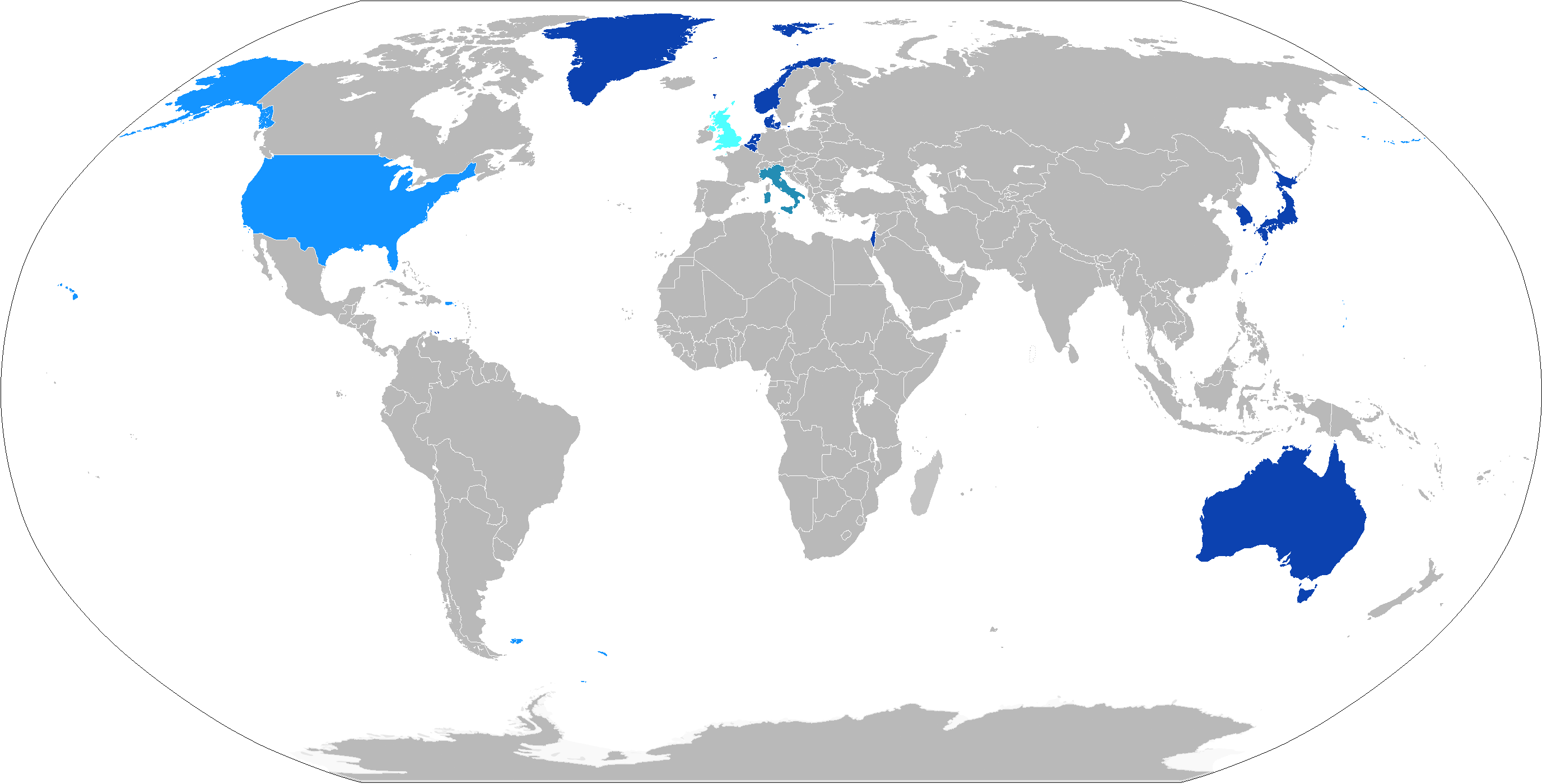 F-35 operators reflecting 7/17/19 Turkey ban